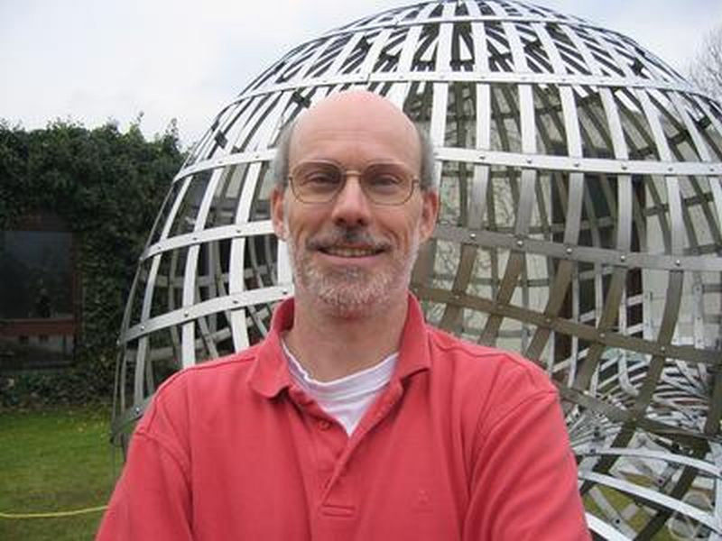 Martin Schweizer, Oberwolfach 2008